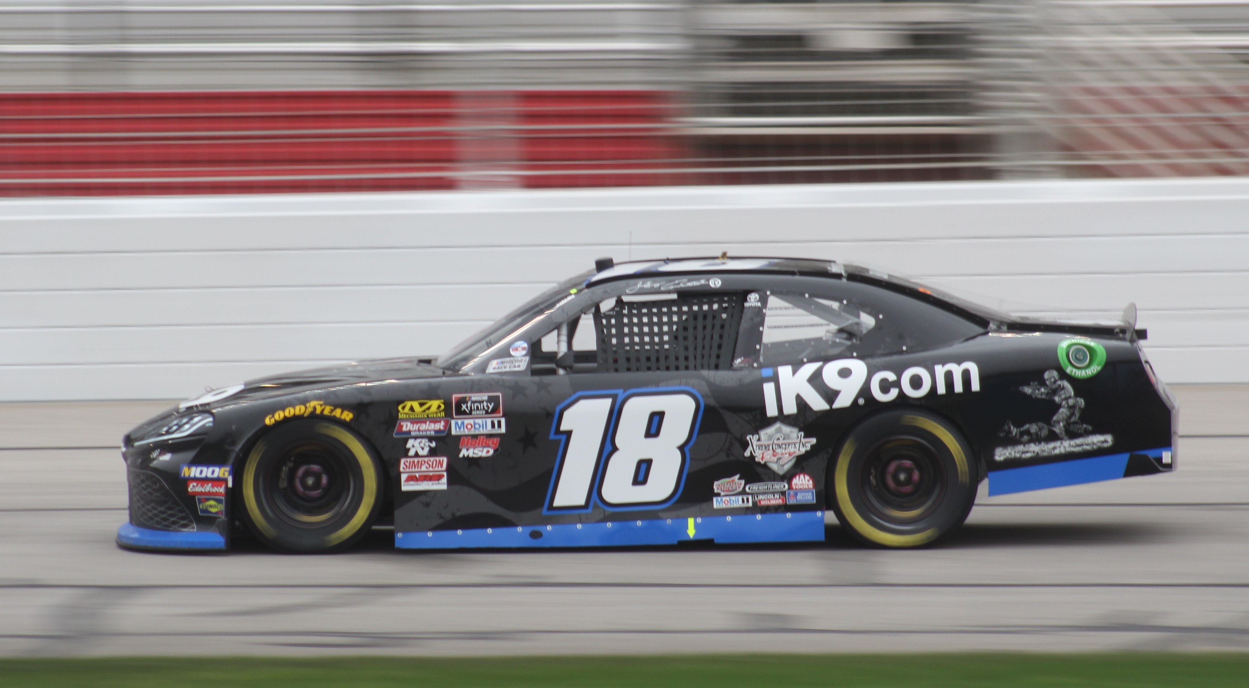 2019 Folds of Honor QuikTrip 500